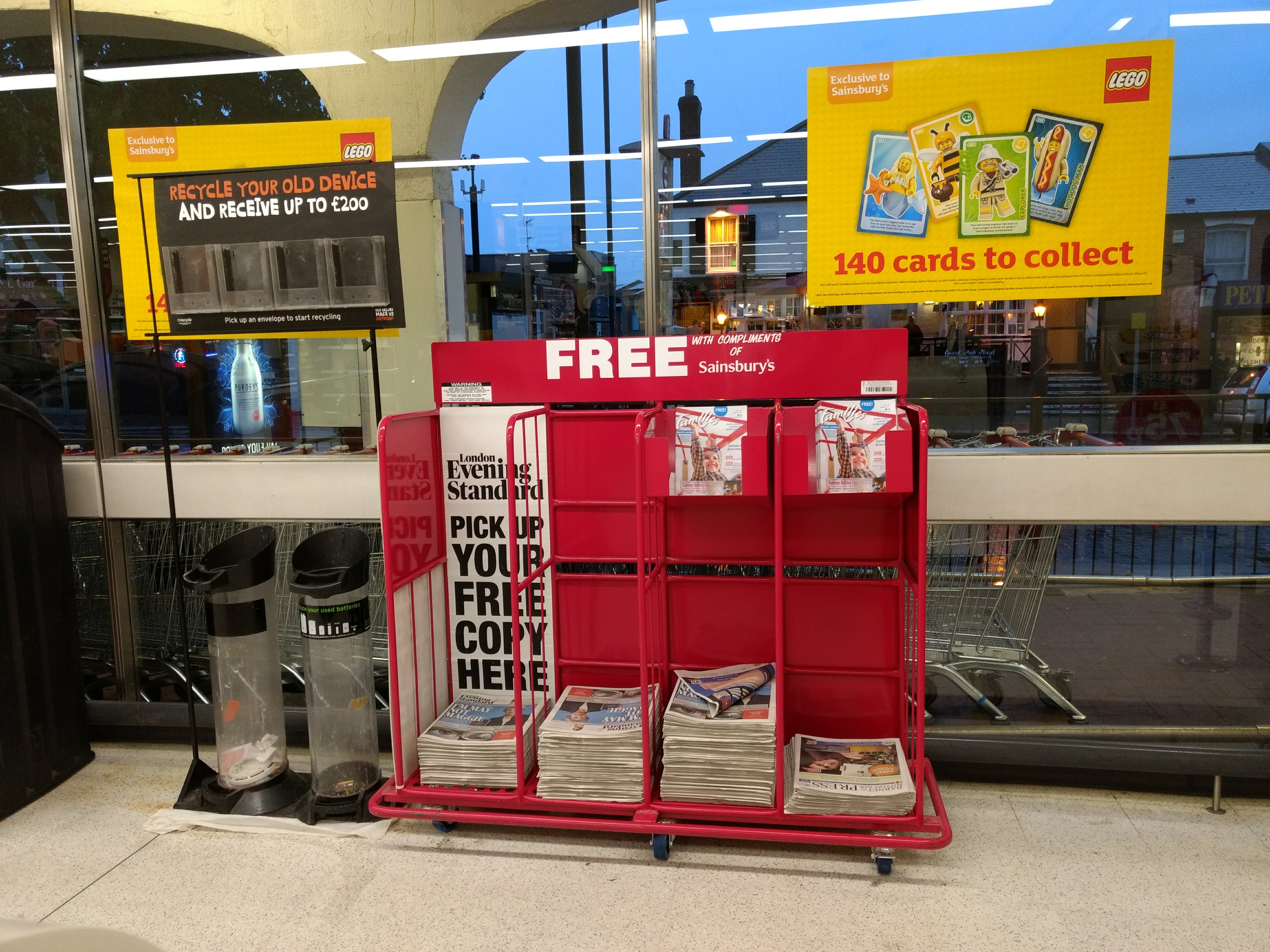 London Evening Standard dispensers, Sainsburys